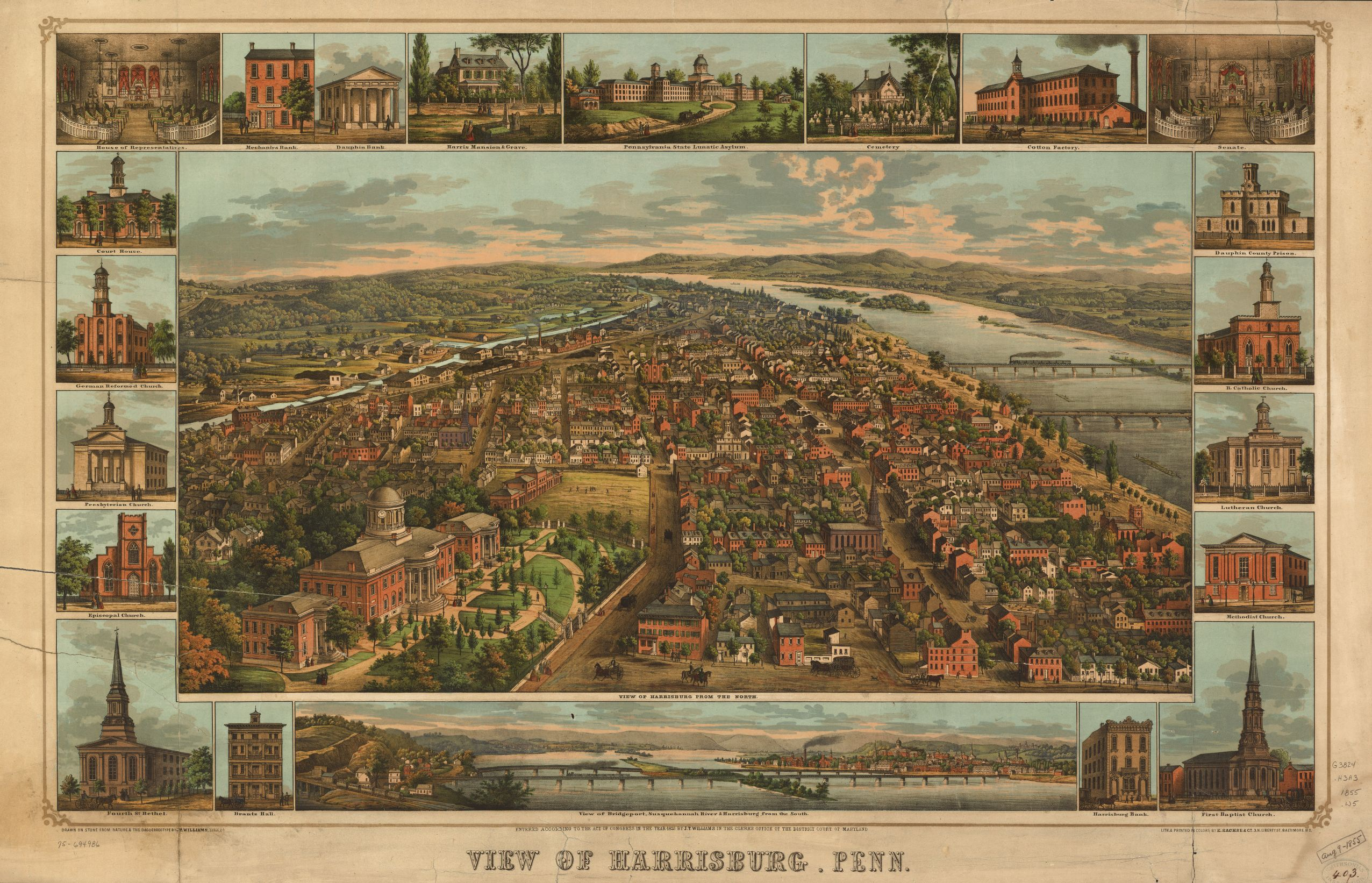 A map of Harrisburg, Pennsylvania made sometime in 1855.